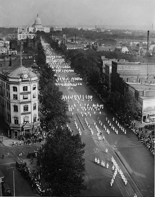 Bird's-eye view down Pennsylvania Avenue with Franklin National Bank in foreground and the U.S. Capitol in the background.